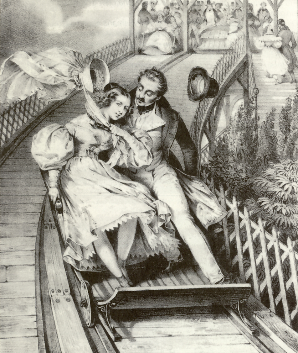 early roller coaster